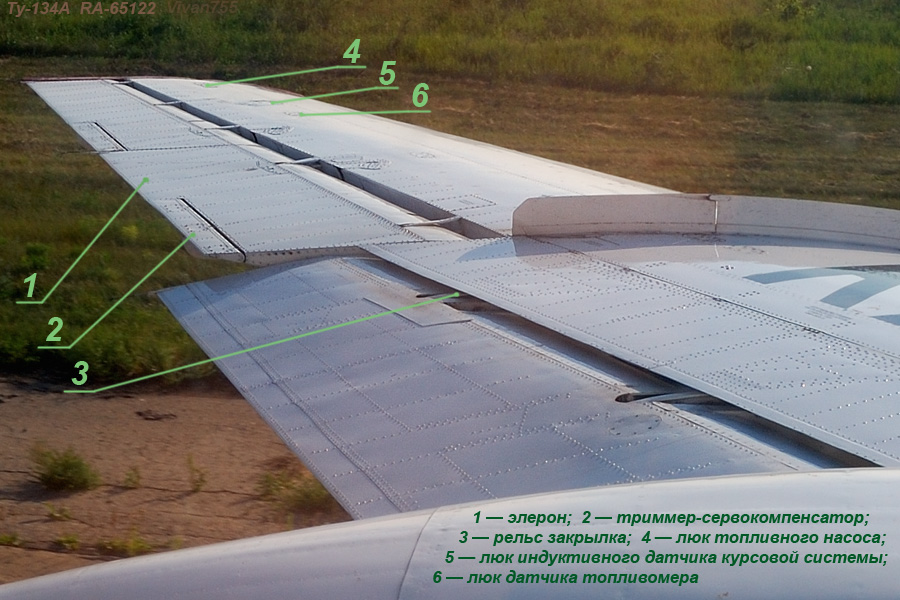 Left wing of Tu-134A. 1 — aileron, 2 — geared trim tab, 3 — flaps rail, 4 — fuel pump access door, 5 — inductive sensor of heading system access door, 6 — fuel meter access door